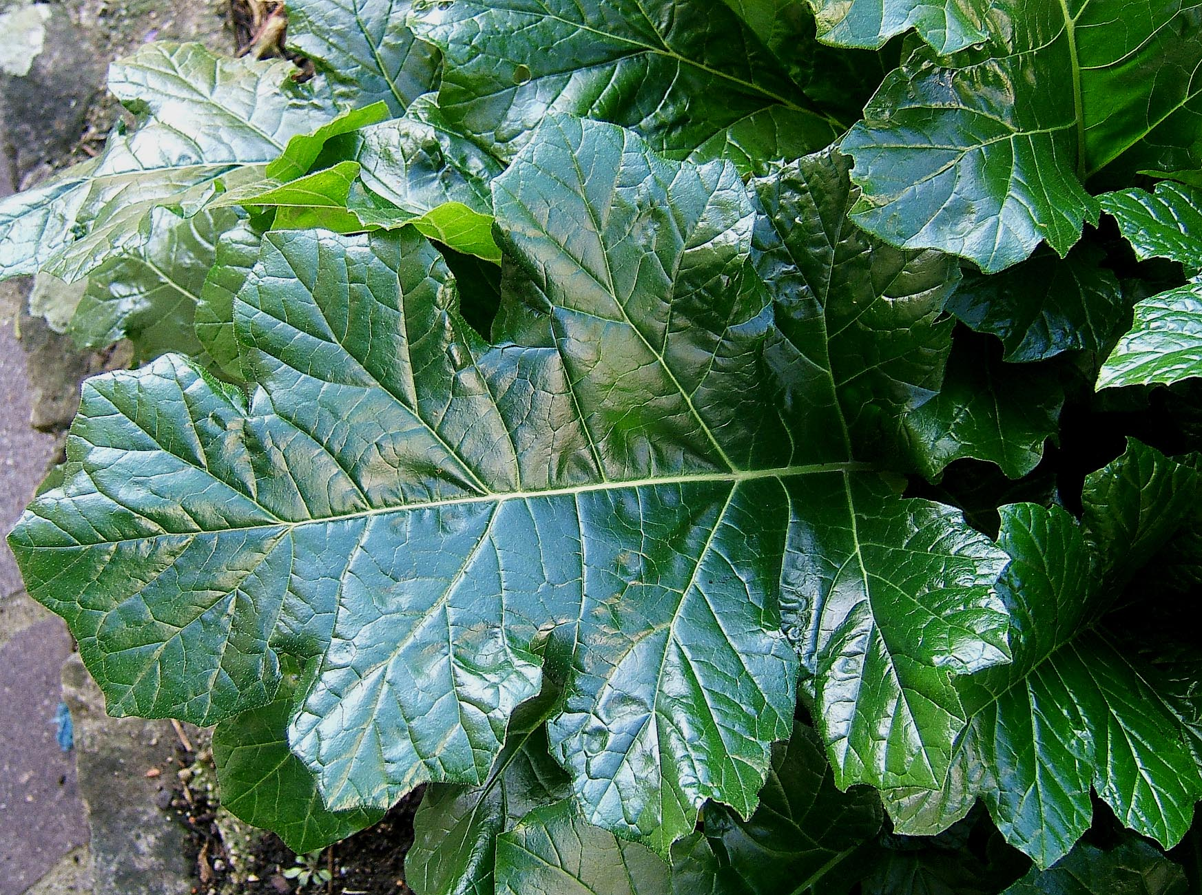 Bear's breeches